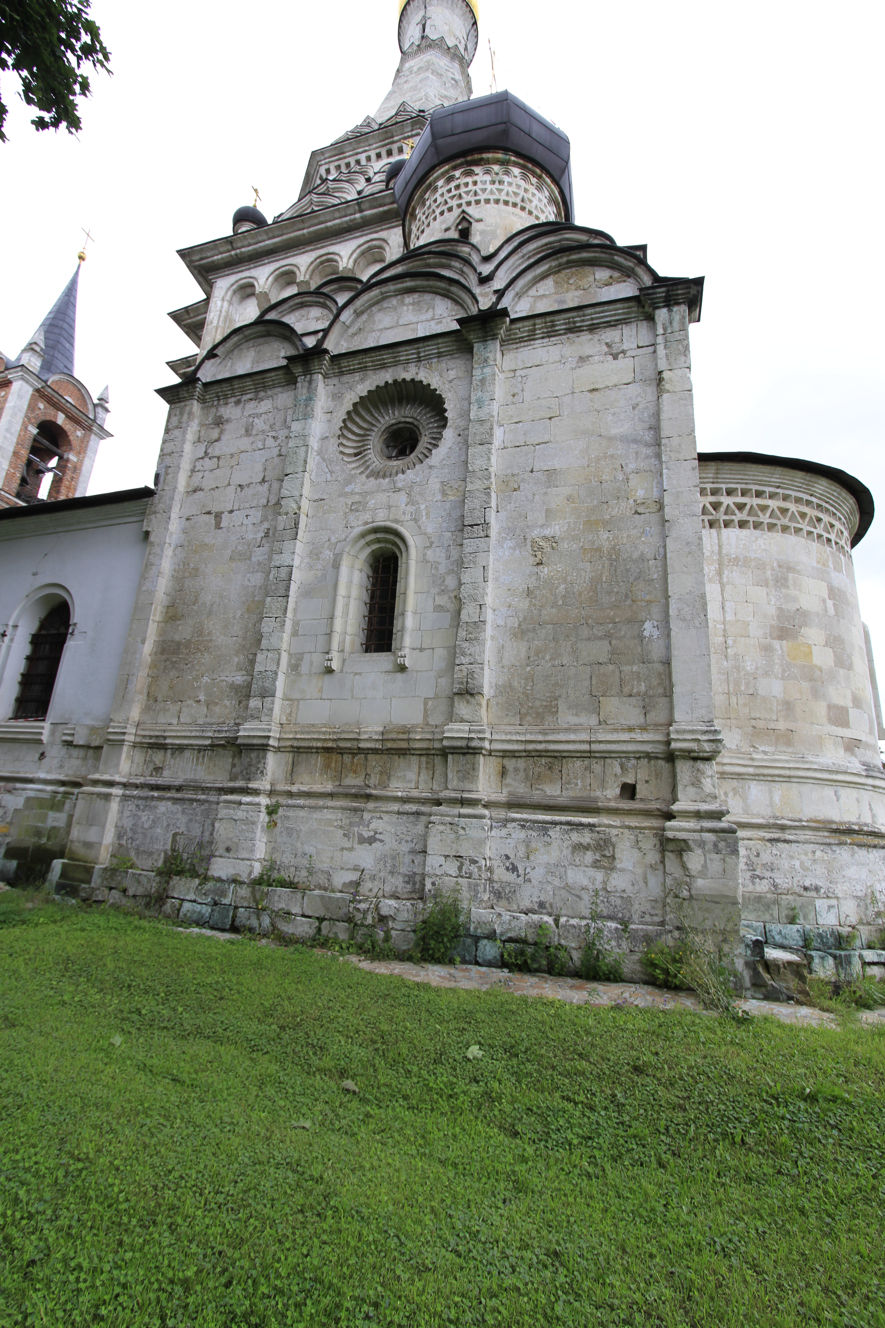 Transfiguration Church in Ostrov